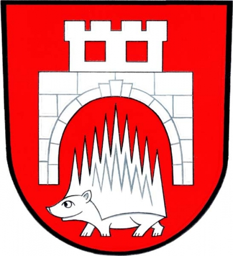 Coat of arms of Vícov, Prostějov District